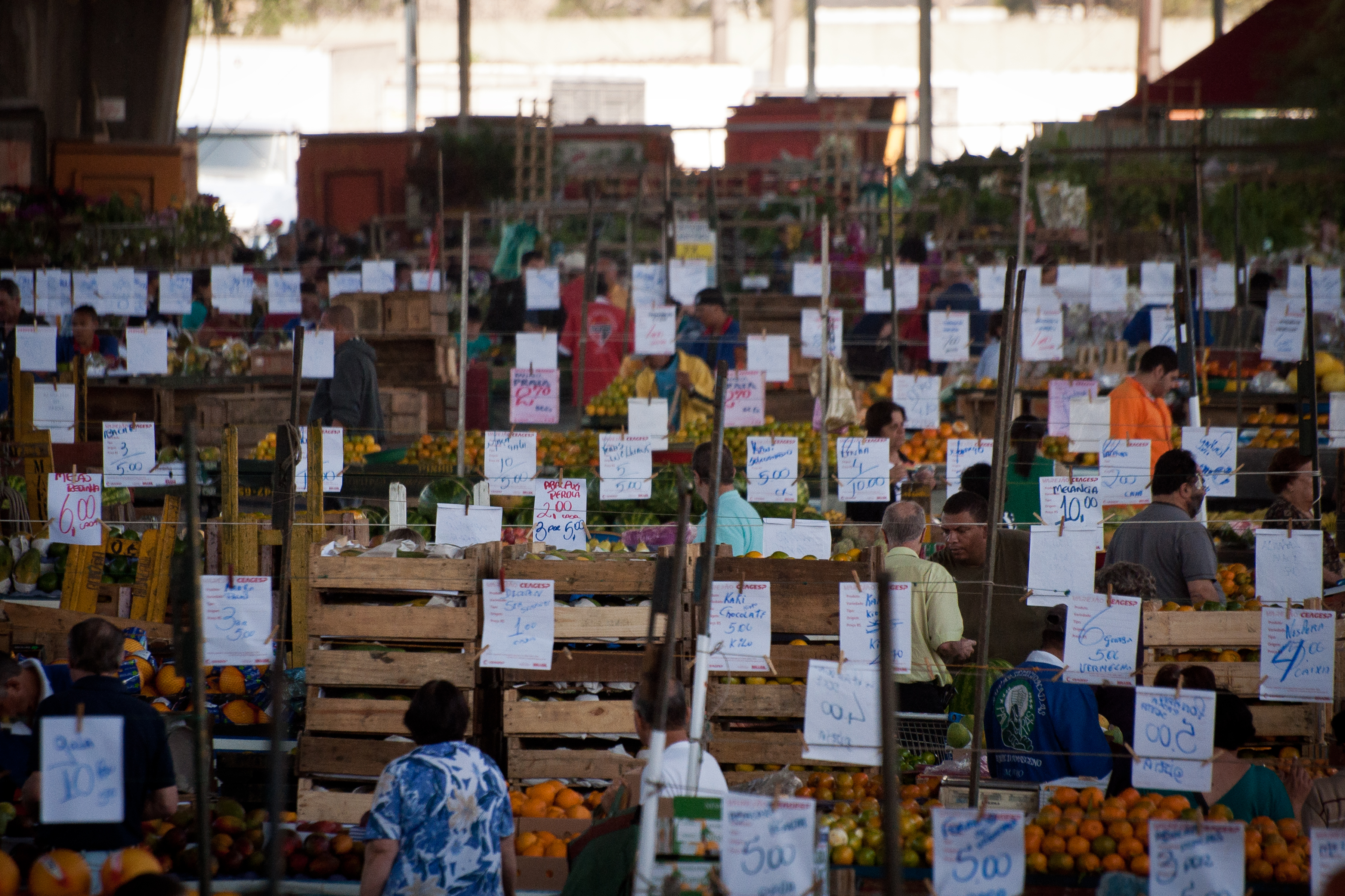 CEAGESP Trade tables